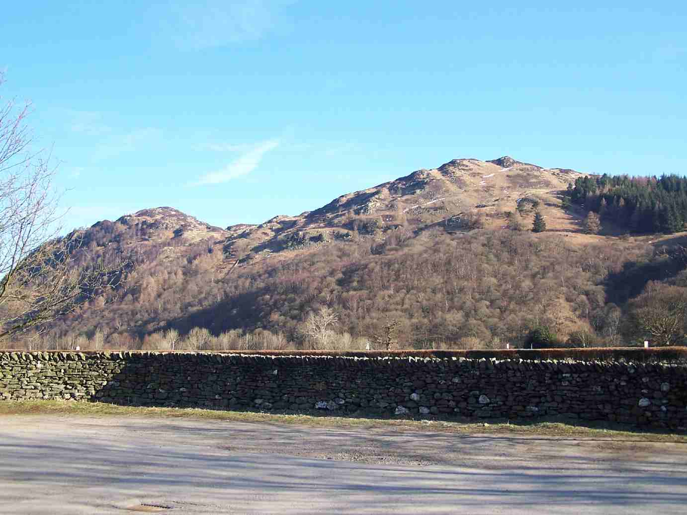 Personal photograph taken by Mick Knapton on 22nd March 2006